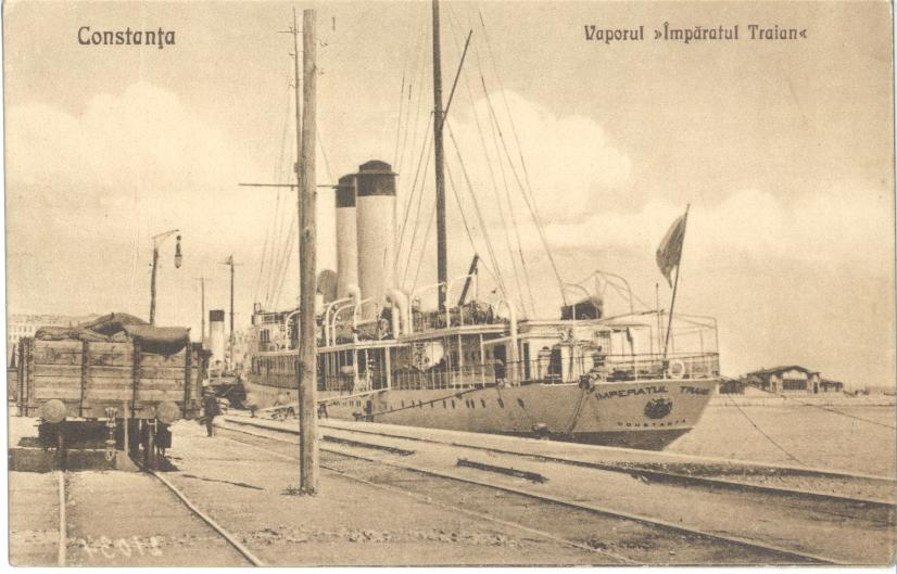 Romanian ship Împăratul Traian.